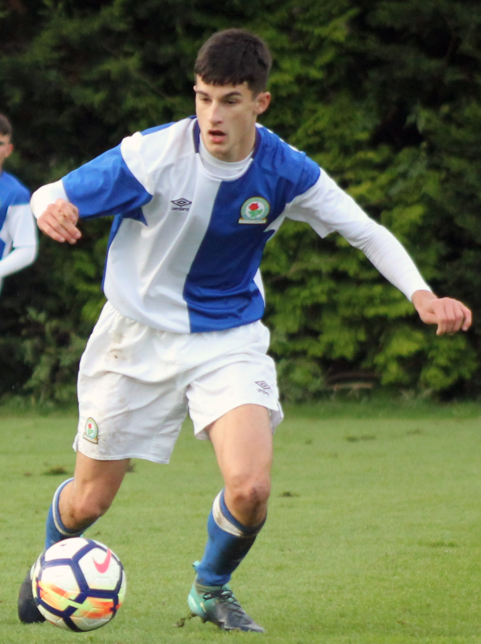 John Buckley playing for Blackburn Rovers U18s in a 4–1 defeat to Manchester United U18s in the U18 Premier League North on 18 November 2017.